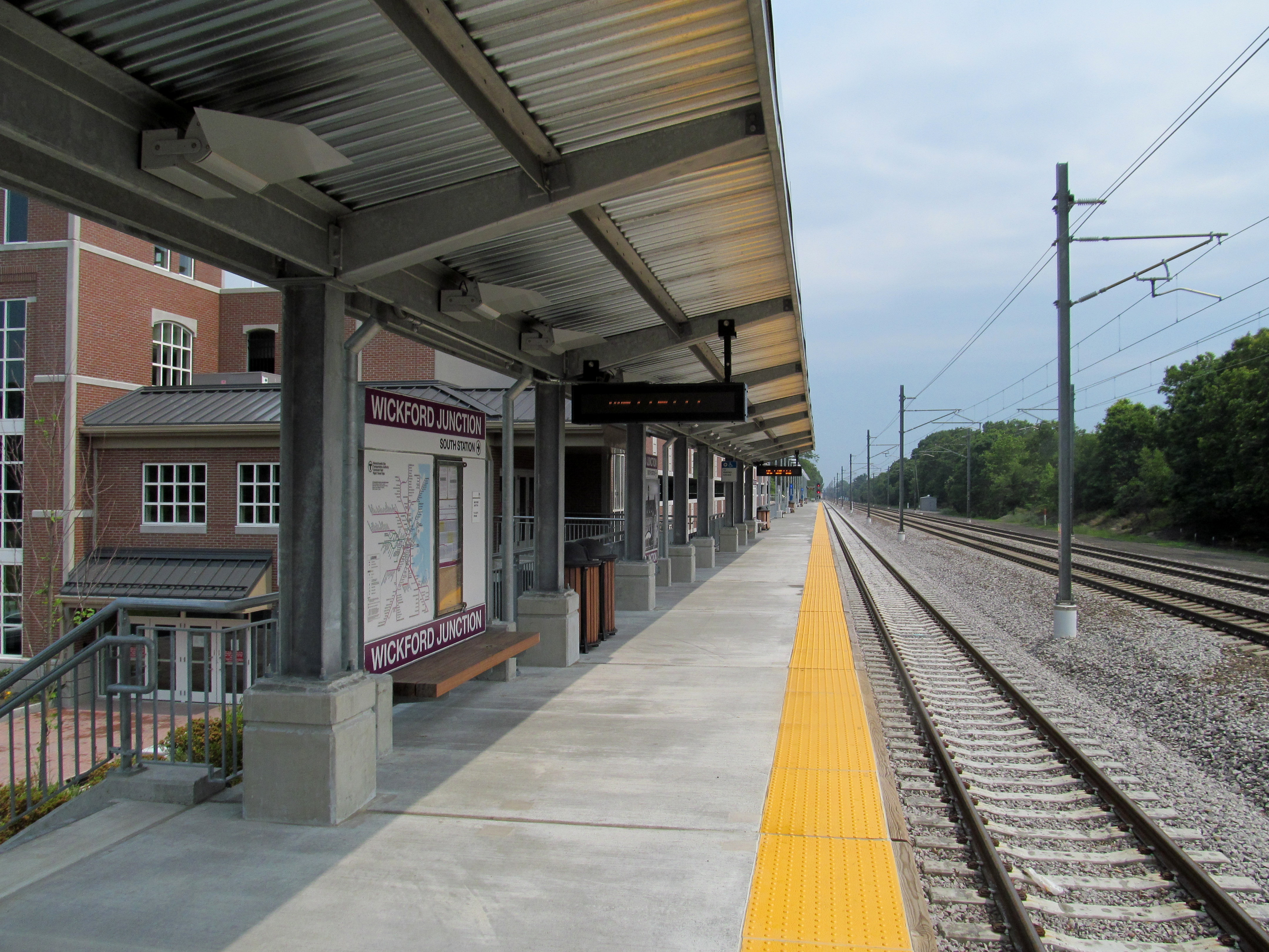 Platform at Wickford Junction station, looking north towards Providence. The parking garage is to the left.